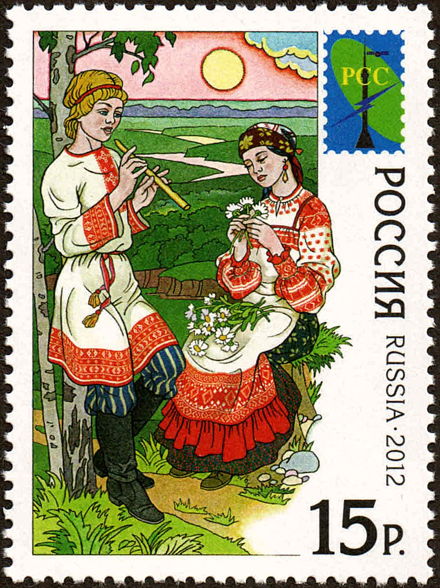 National costumes. The joint issue of the postal entities of the members of the Regional Commonwealth in the Field of Communication (RCC). Russian costume. The costumes of Vologda Guberniya: a youth in the holiday costume, a girl in the costume worn after engagement. The emblem of RCC on the top right.The stamp of Russia, 15.00 Rubles, 21 September 2012, PTC Marka Catalogue No 1636, Michel No 1868. Coated paper. Offset printing, multicoloured. Perforation: comb 11½:12. Size of the stamp: 37×50 mm. Print run: 360,000.